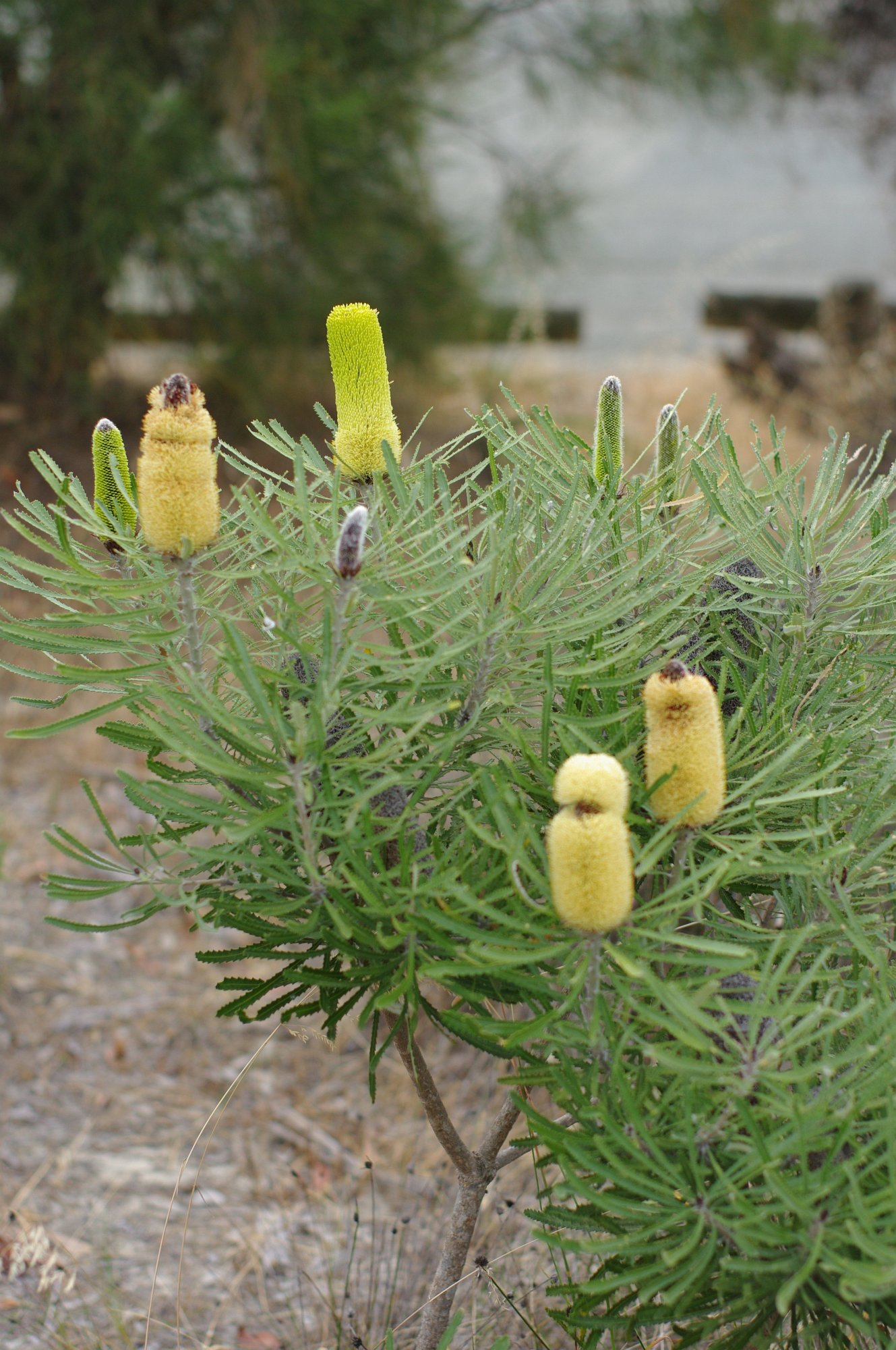 =1Banksia attenuata in Wireless hill reserve Booragoon Western Australia plant